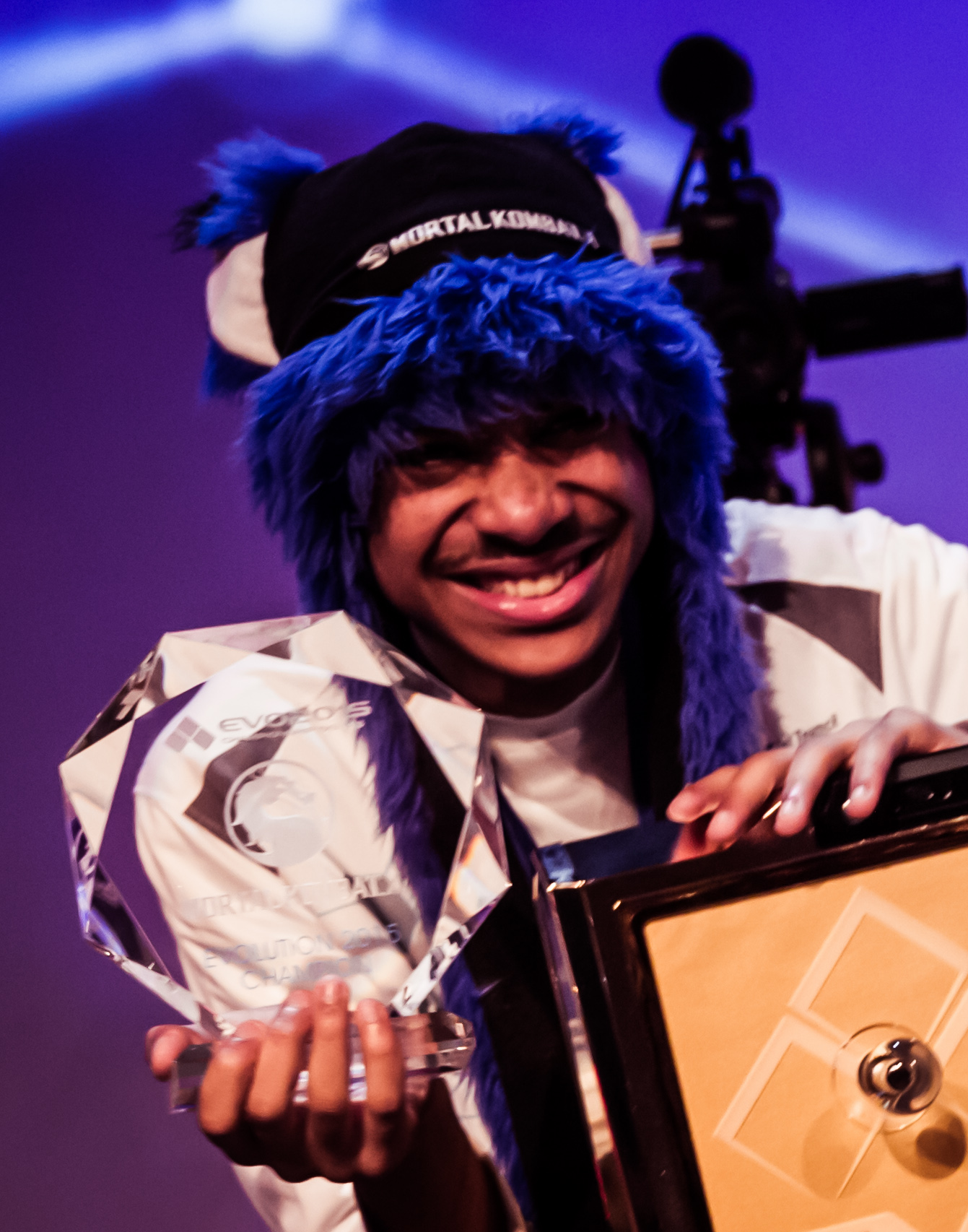 SonicFox at Evo 2015